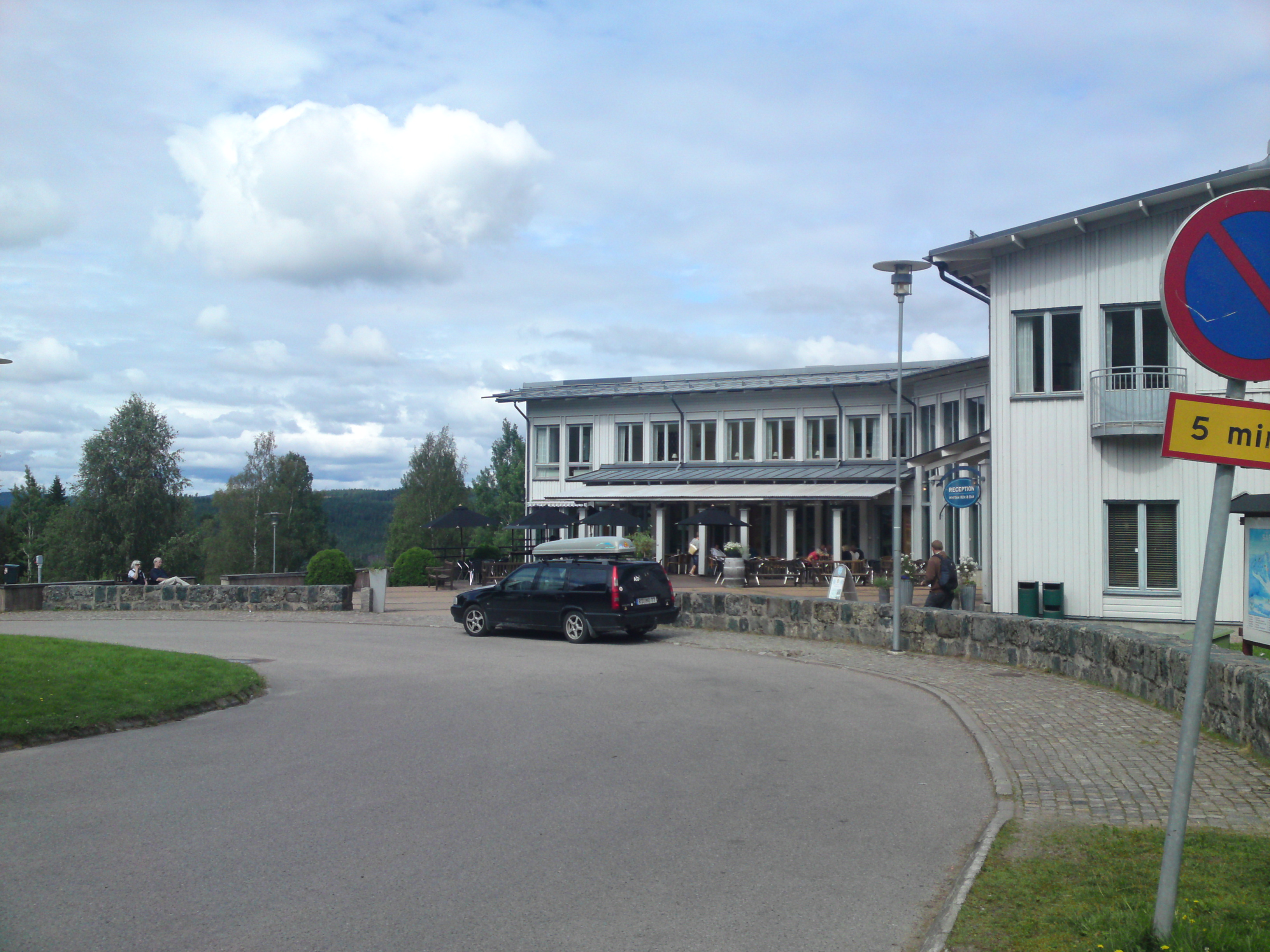 The reception of Säfsen Resort, in Säfsbyn just outside Fredriksberg, Dalecarlia, Sweden.